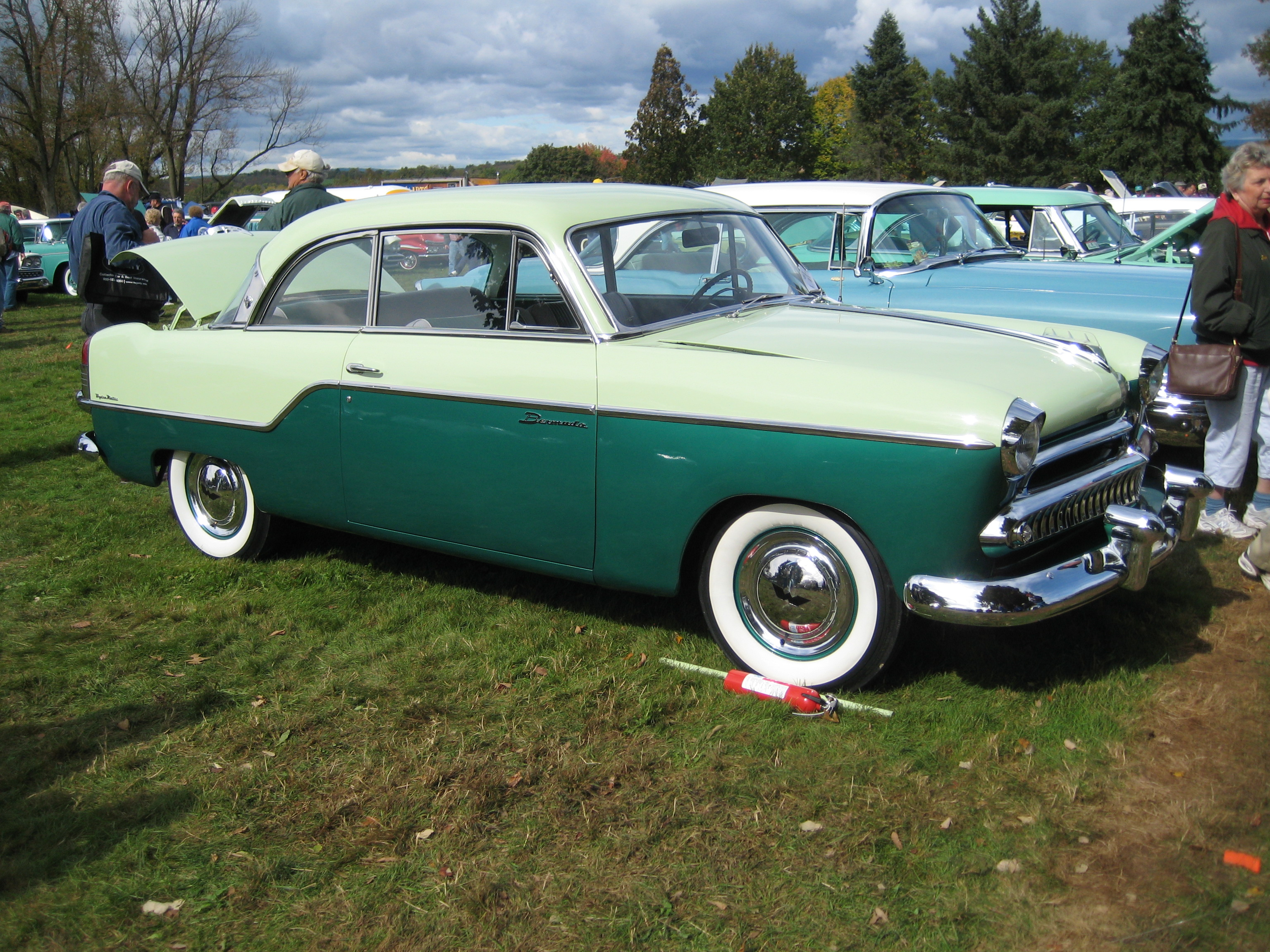 The Willys Aero cars were called Lark, Wing, Falcon, Ace or Eagle depending on year, engine and trim level, except for a small production run in its final year (1955) with models called Custom and Bermuda.